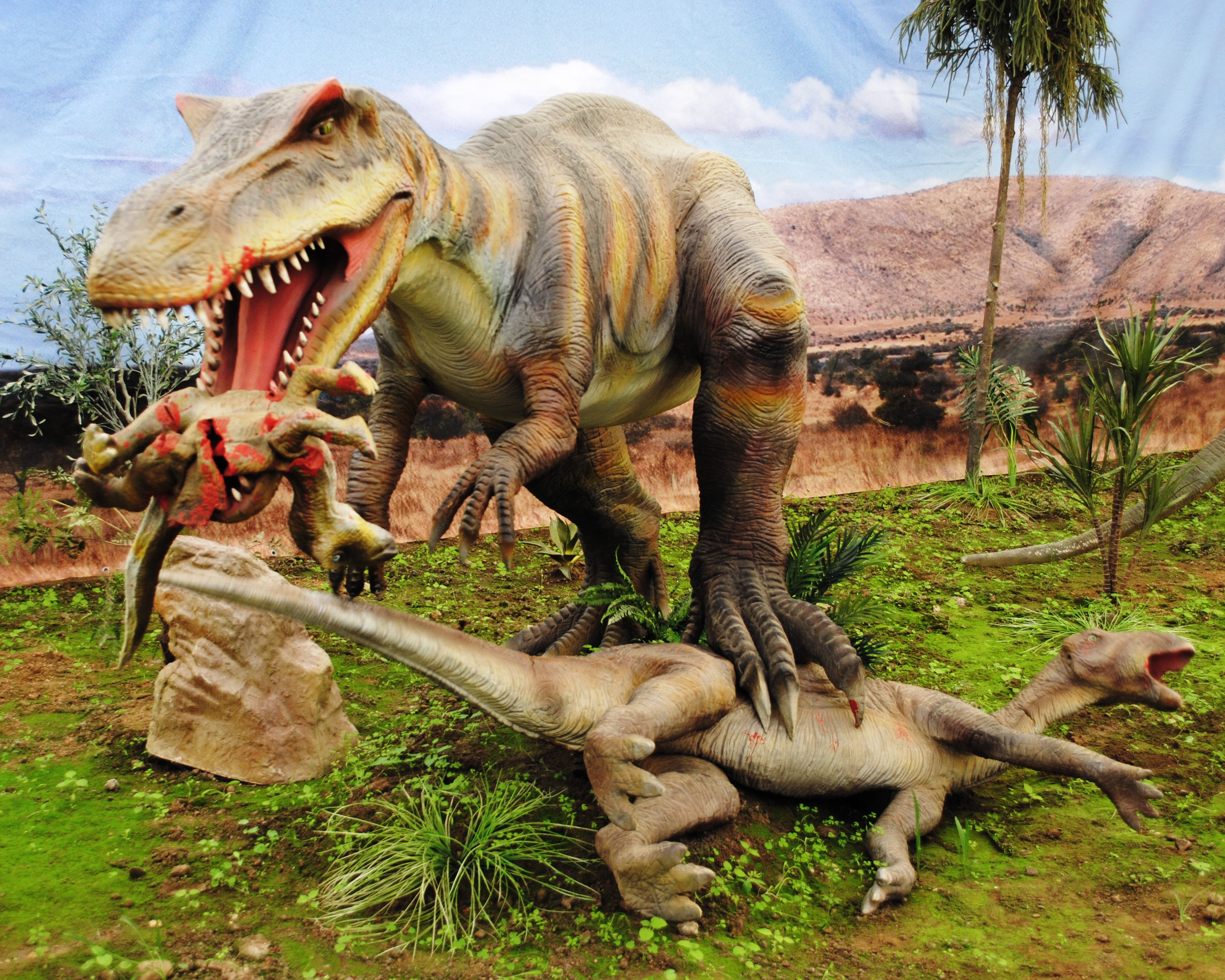 Dinosaurios Park, Baryonyx